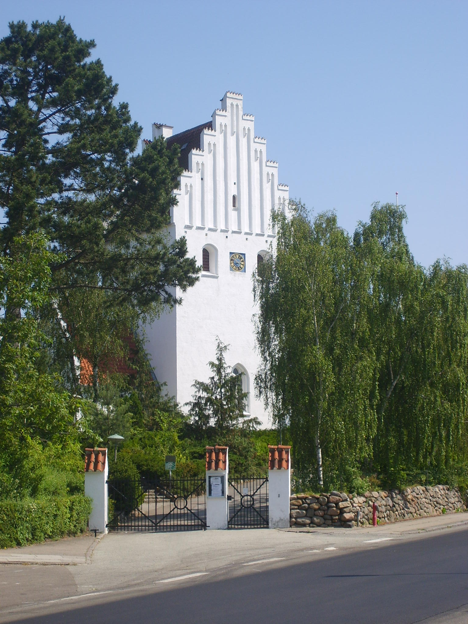 Church at a cemetery in Højbjerg, a suburb of Århus in Denmark. It is probably the most notable building in the area.